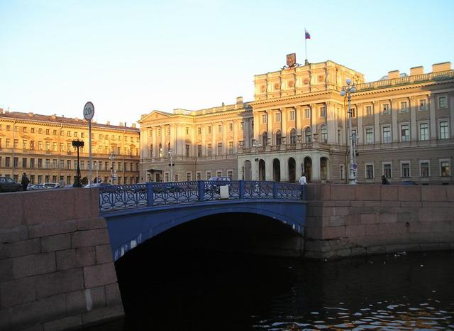 Siny ('blue') Bridge. River Moyka.